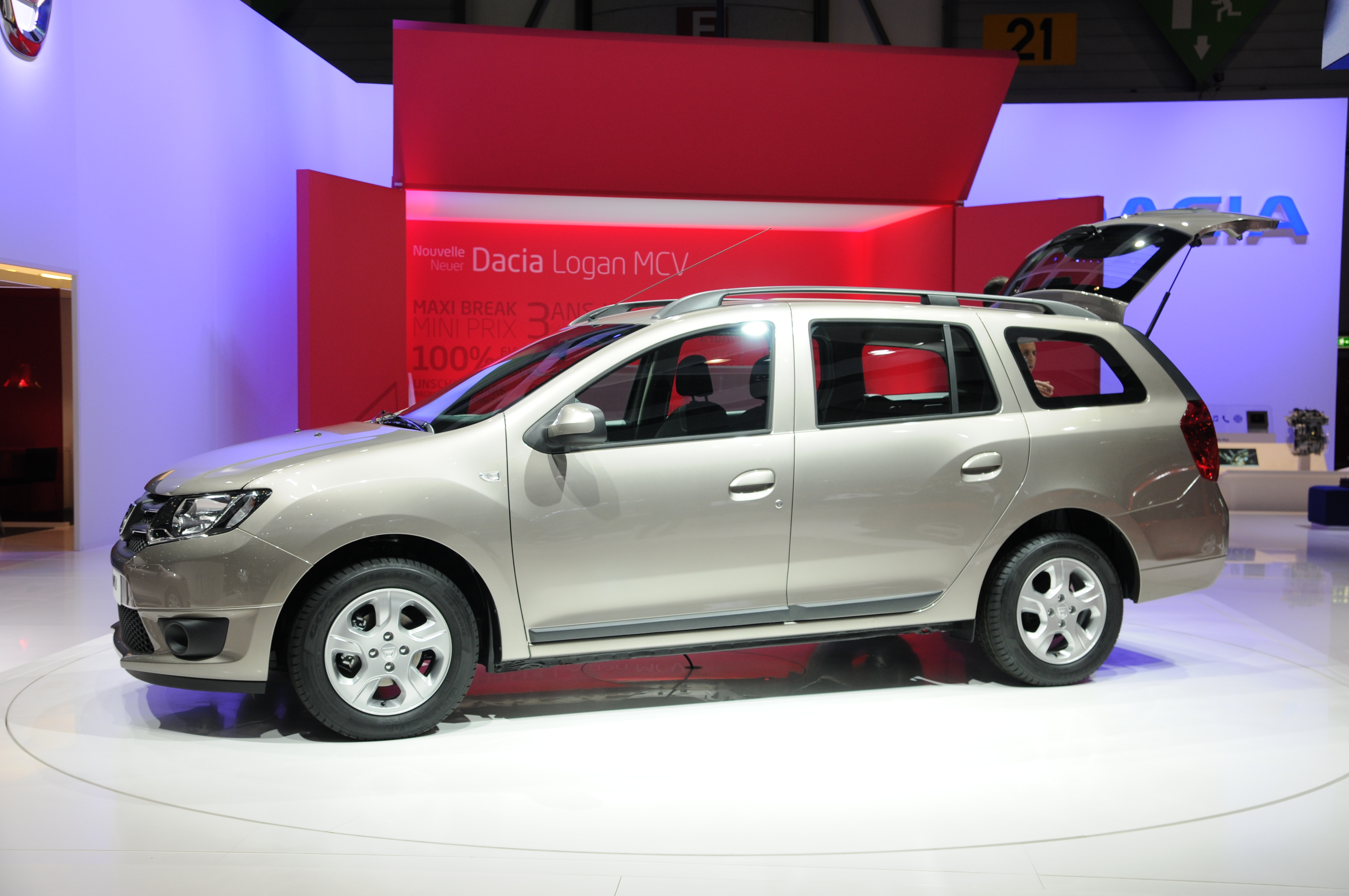 Geneva Motor Show 2013 (photos taken on the first press day)